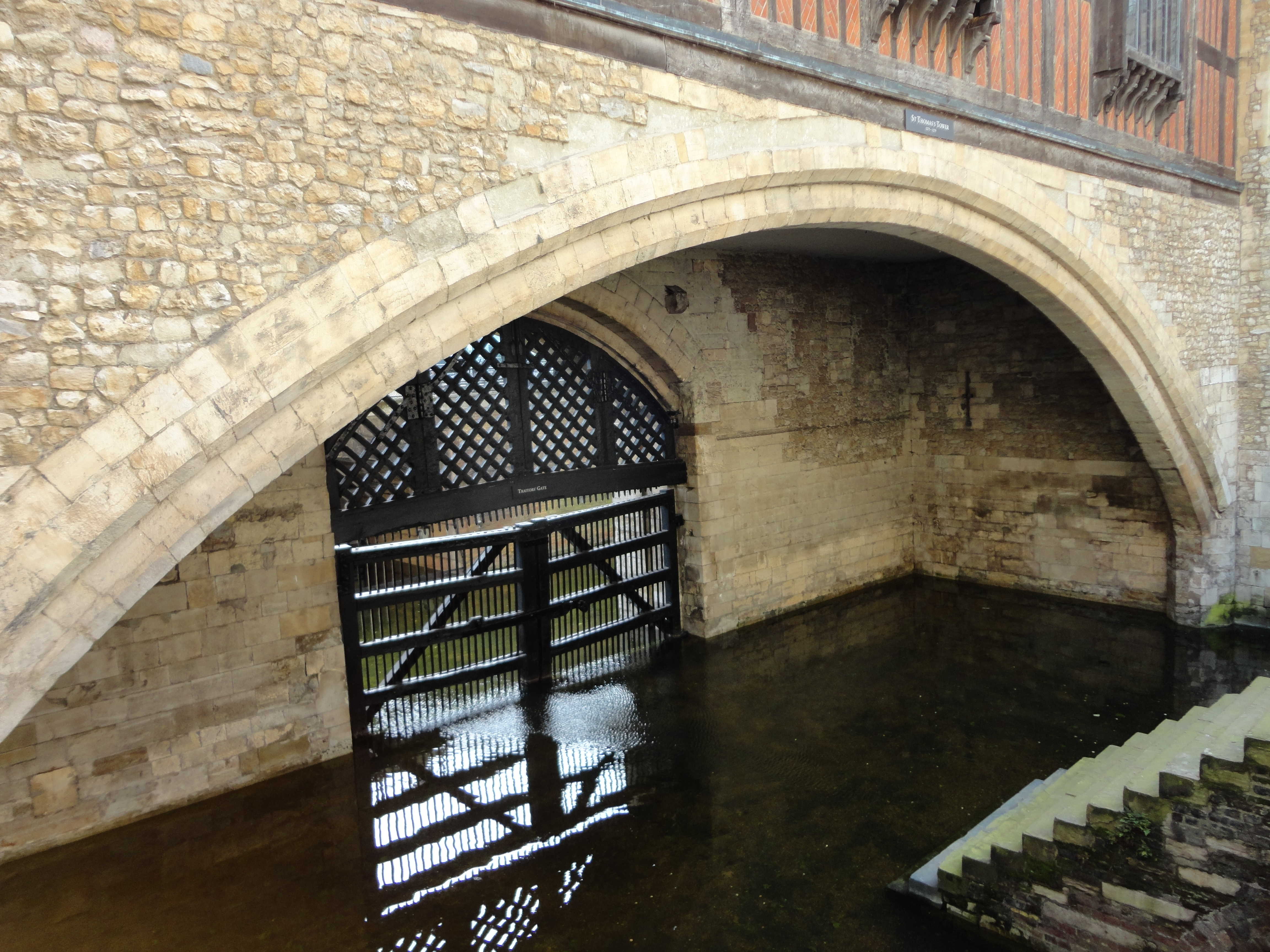 Tower of London